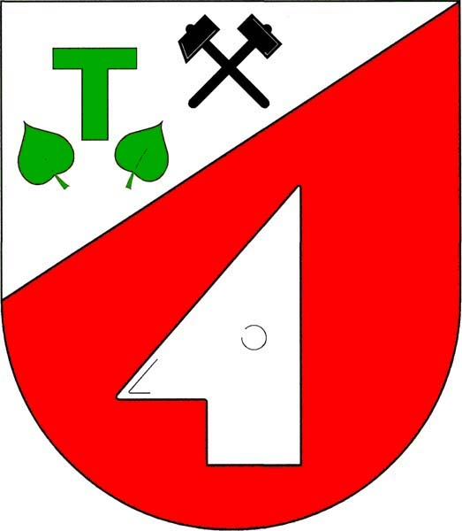 Municipal coat of arms of Babice u Rosic village, Brno-Country District, Czech Republic.